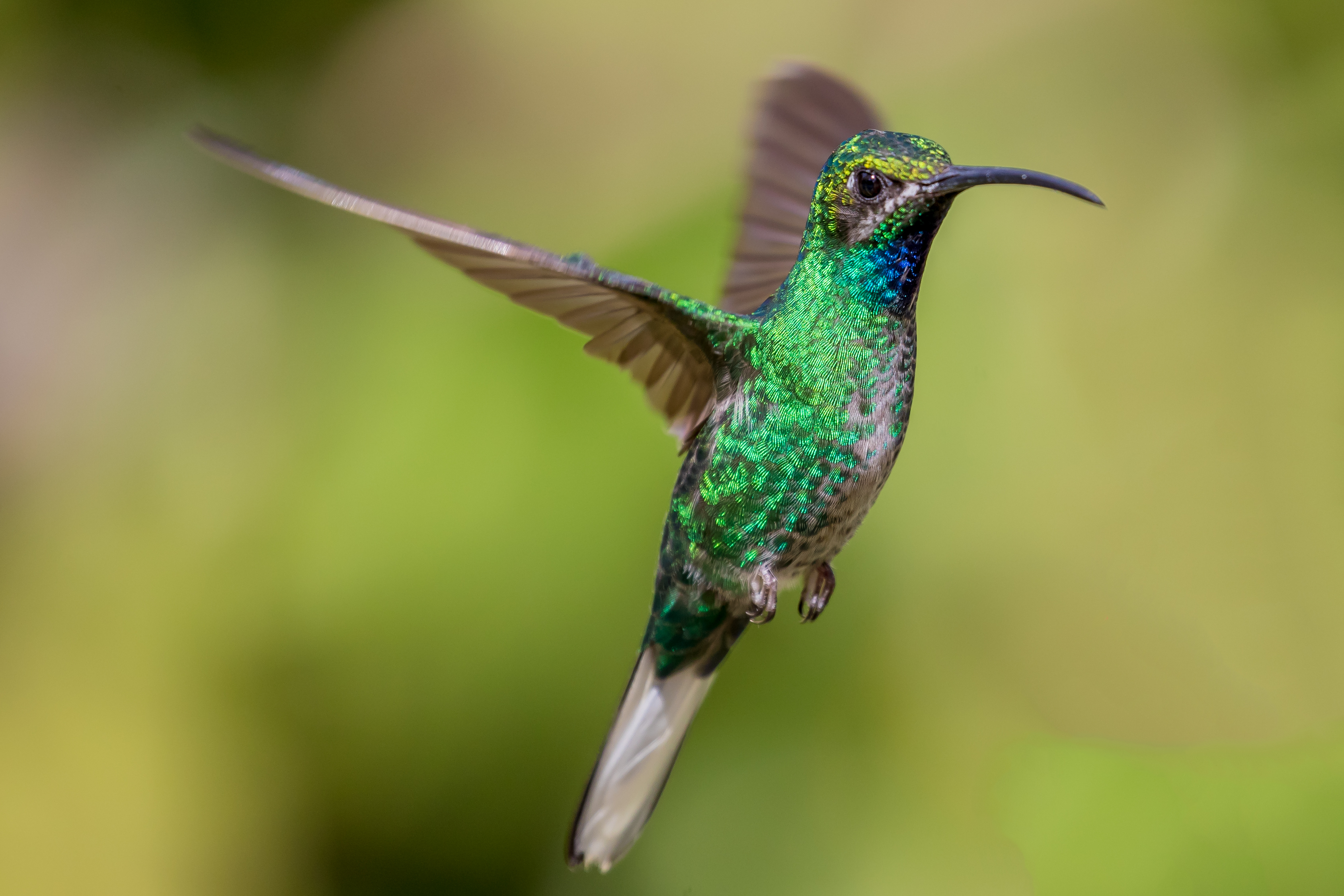 White-tailed sabrewing. Tobago copyright Steve Laycock